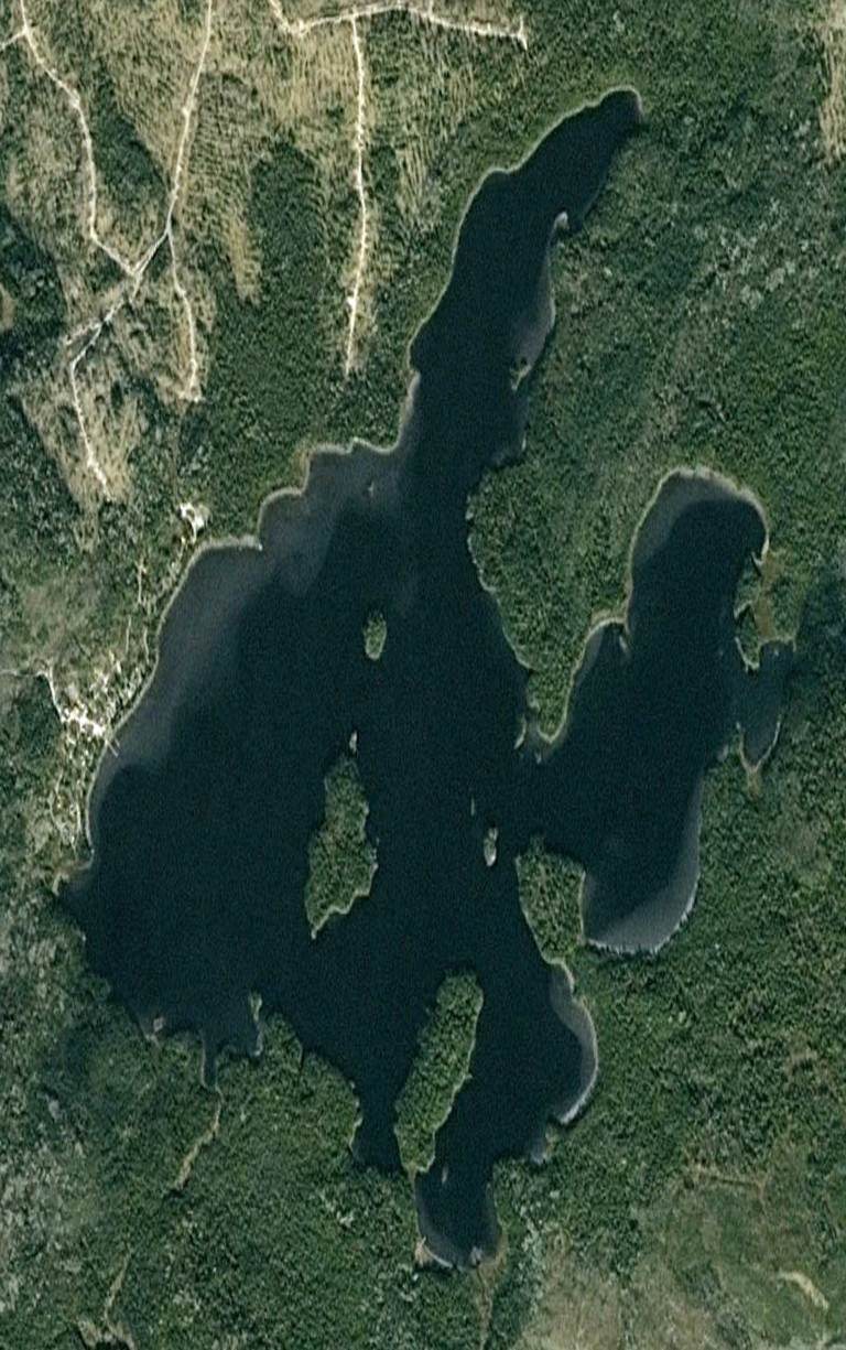 McArthur Lake as seen from space.